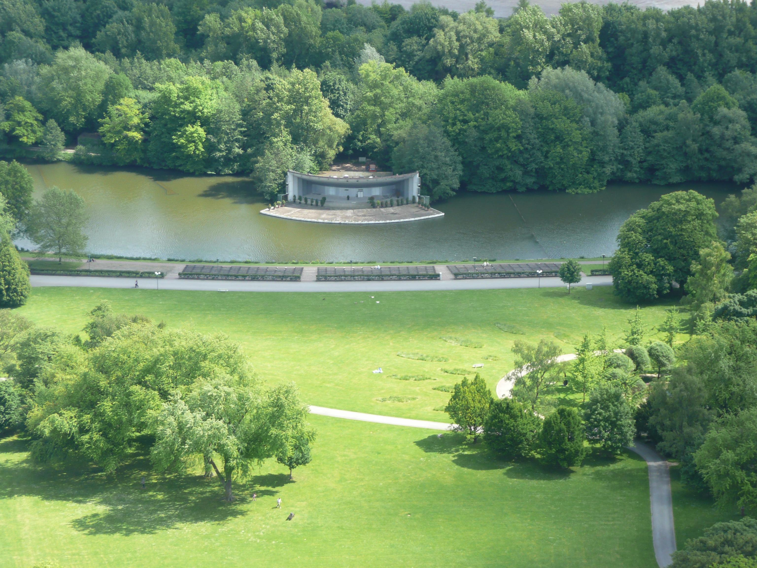 Open air stage in Westfalenpark Dortmund